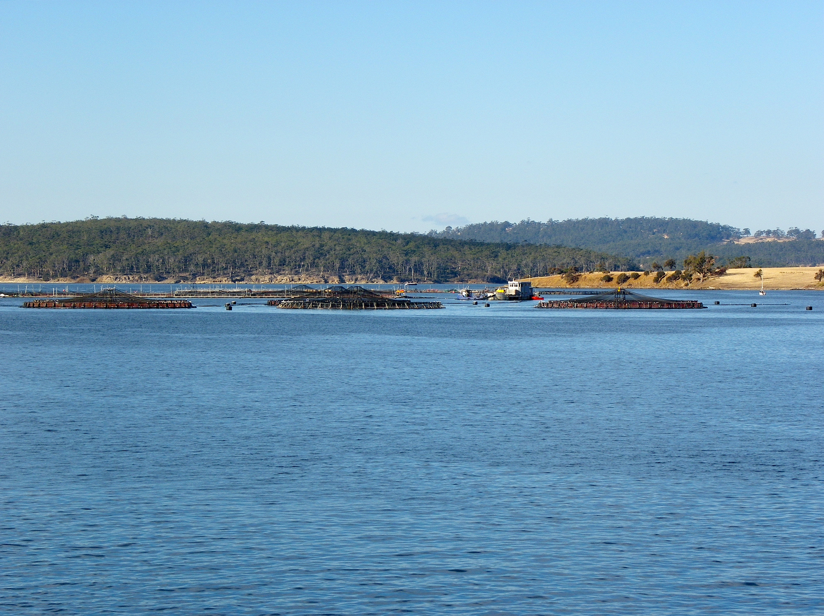 Fish farm at North Bruny, Bruny Island, Tasmania